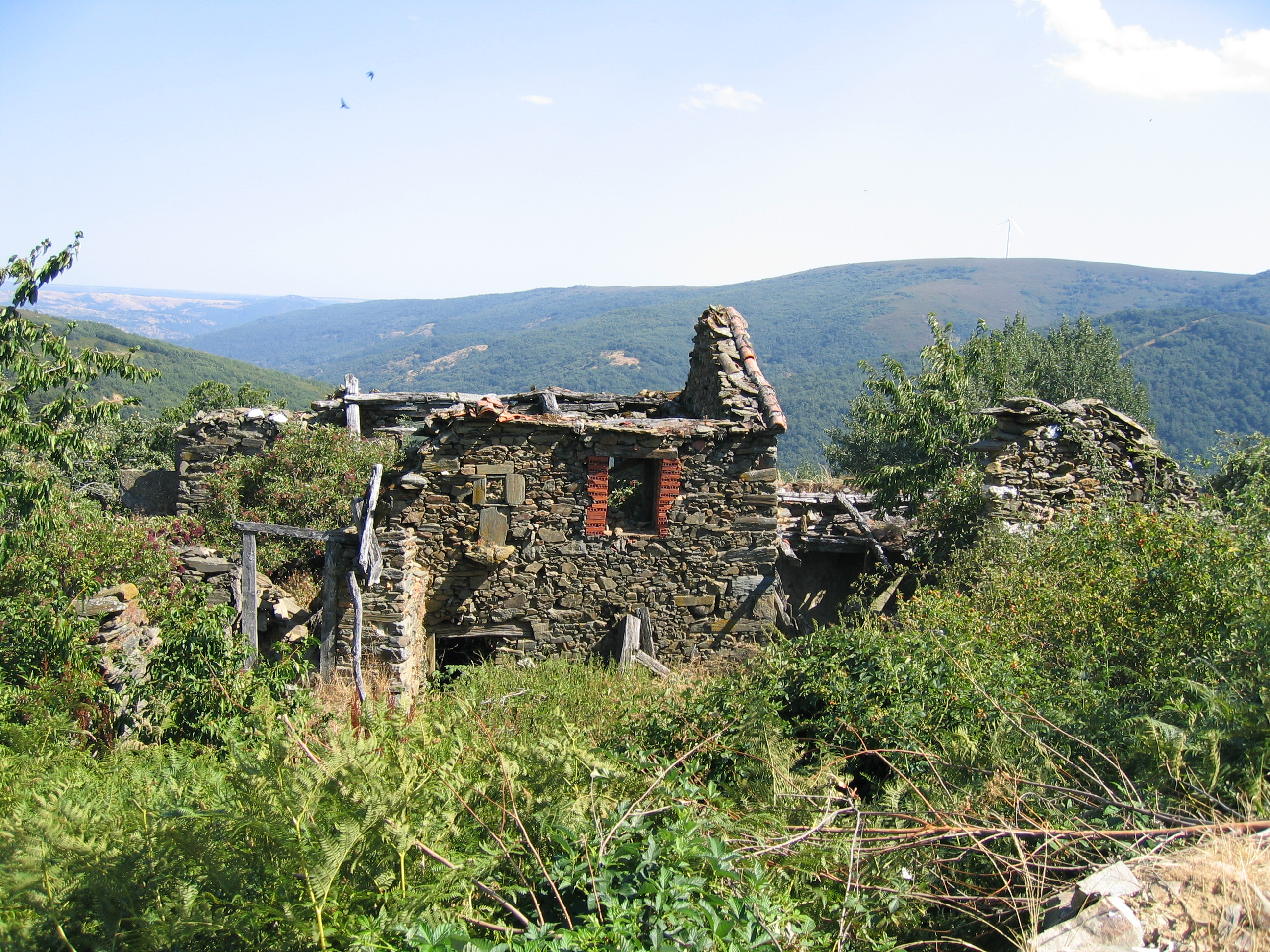 Abandoned house in ruins; Rosales, Riello, Spain